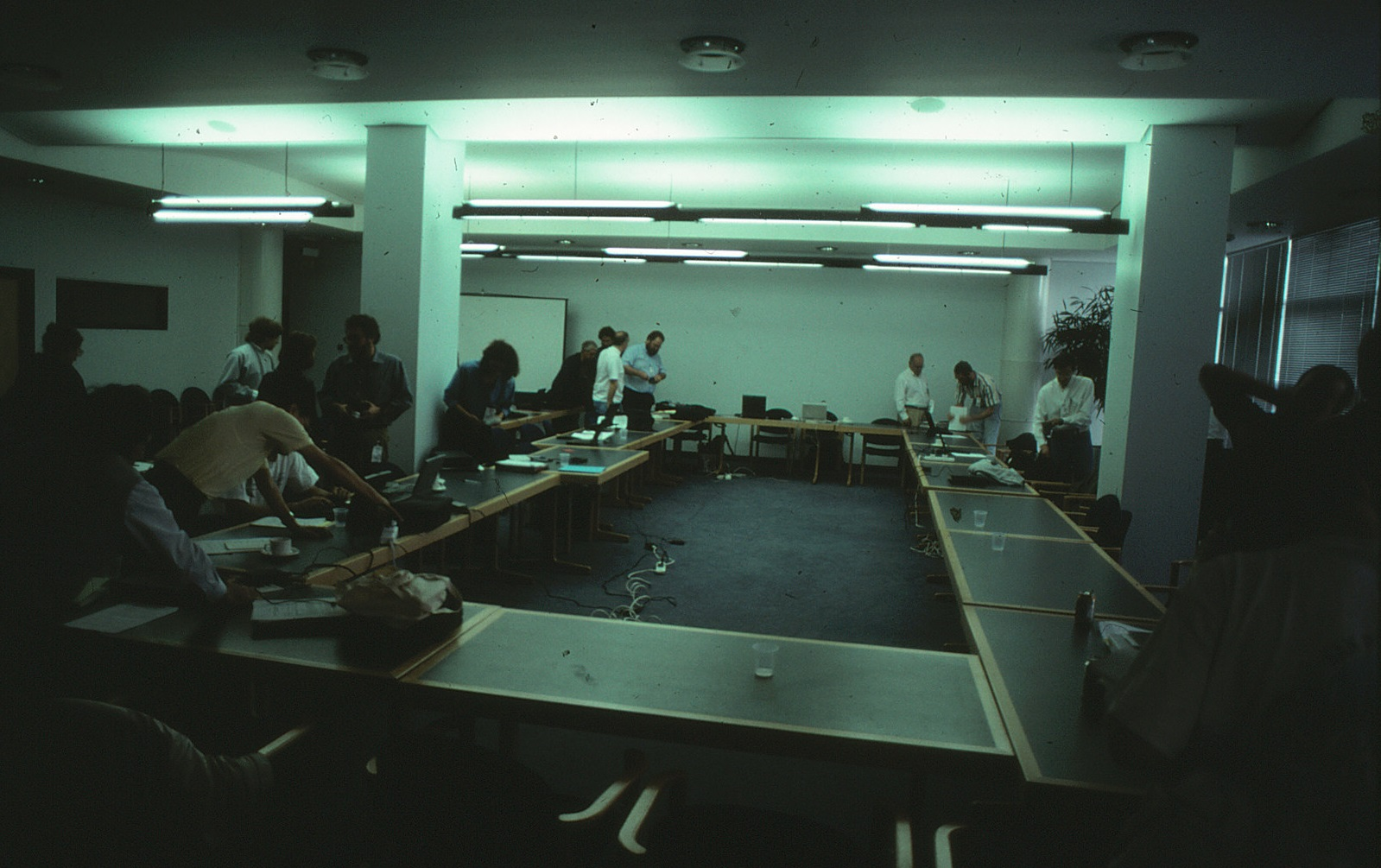 The ISO/IEC JTC1/SC22/WG21 C++ Standards Committee meeting in a Monday session held at the British Standards Institution in Chiswick, London, in July 1997. Not certain if this is the opening general session or one of the 'core' working group sessions later that day.